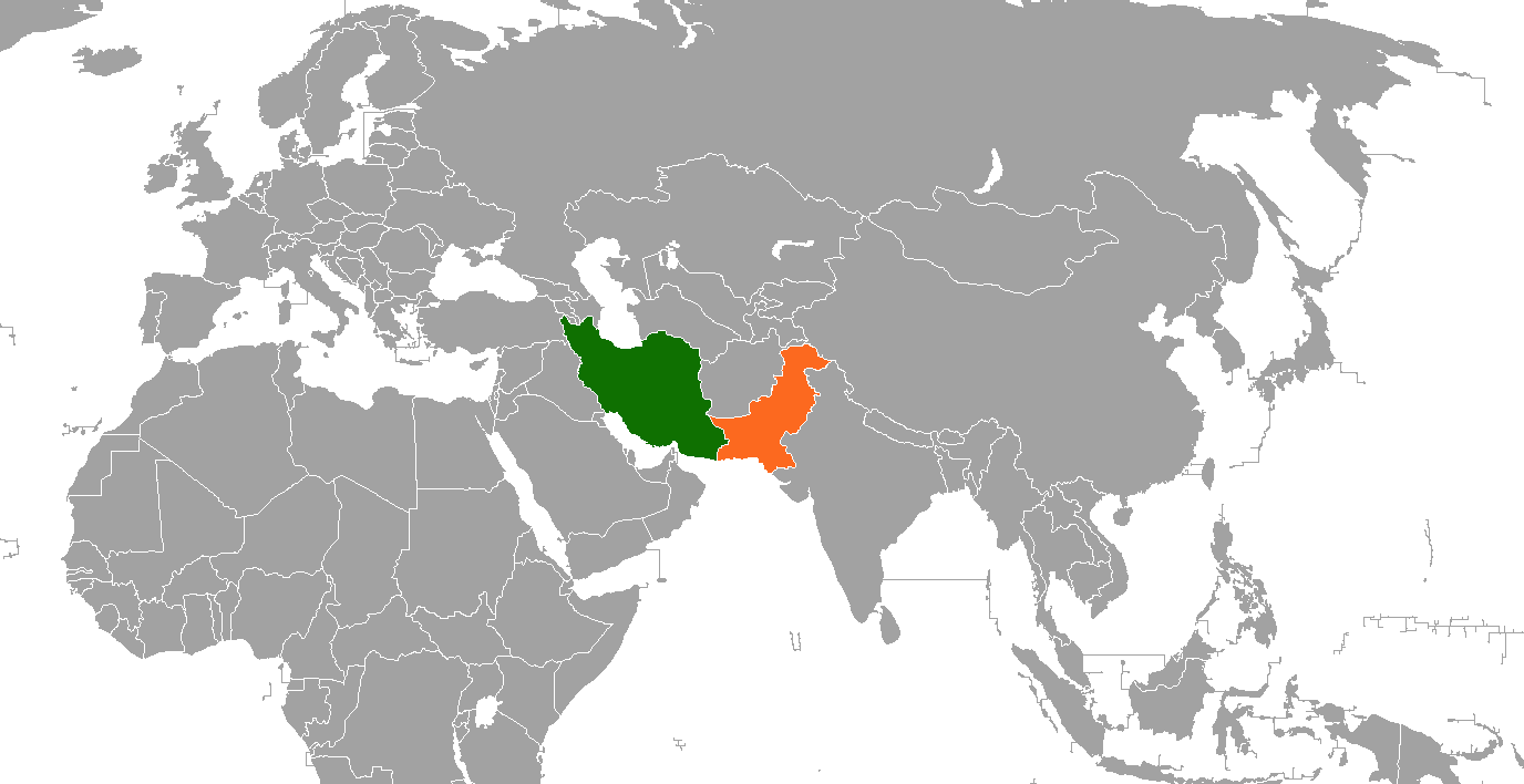 Map depicting the location of Pakistan and Iran.